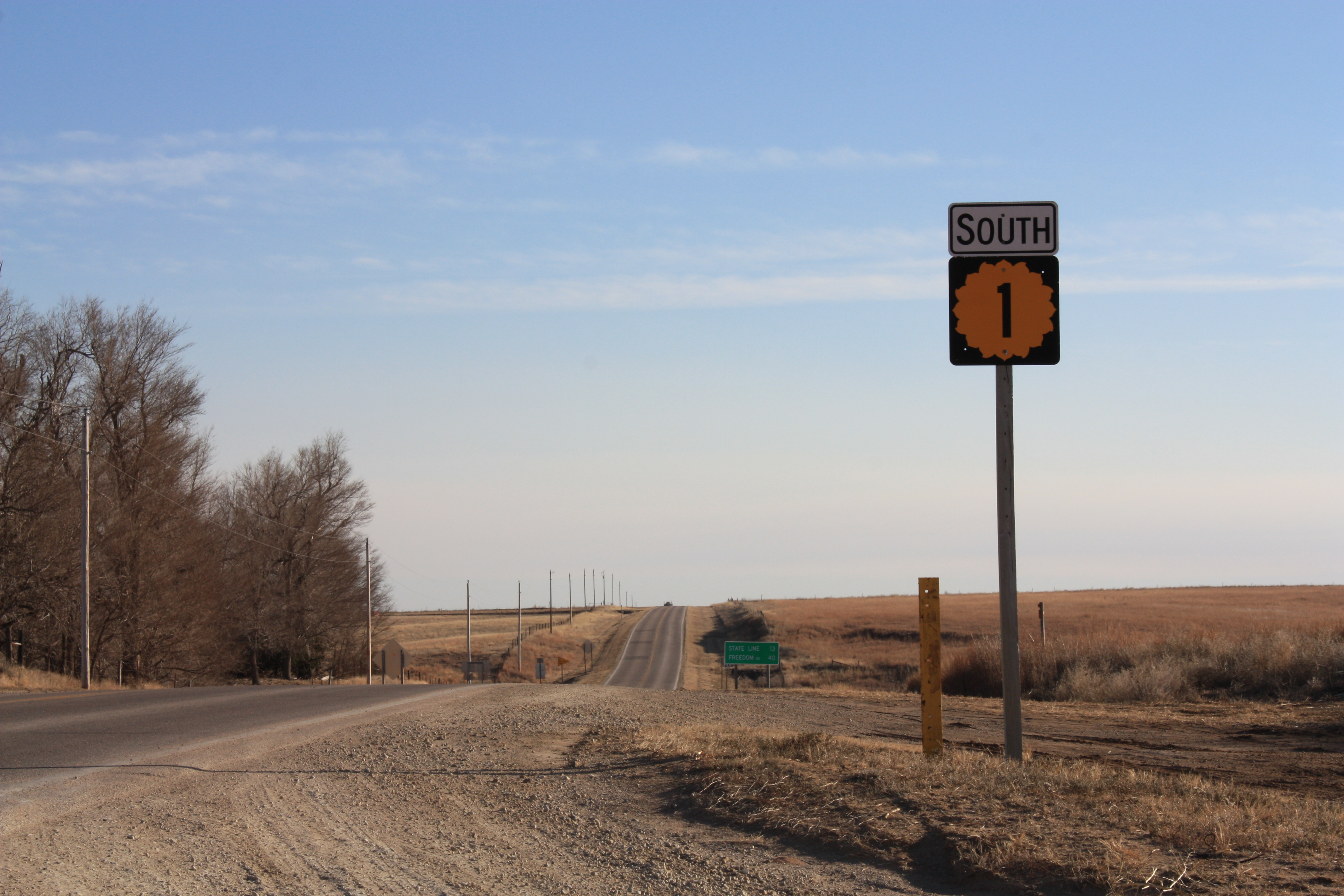 K-l looking south from nothern terminus. Destination sign in background says; "State Line - 13, Freedom OK - 40"